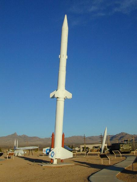 Athena rocket at the White Sands Missile Range Museum